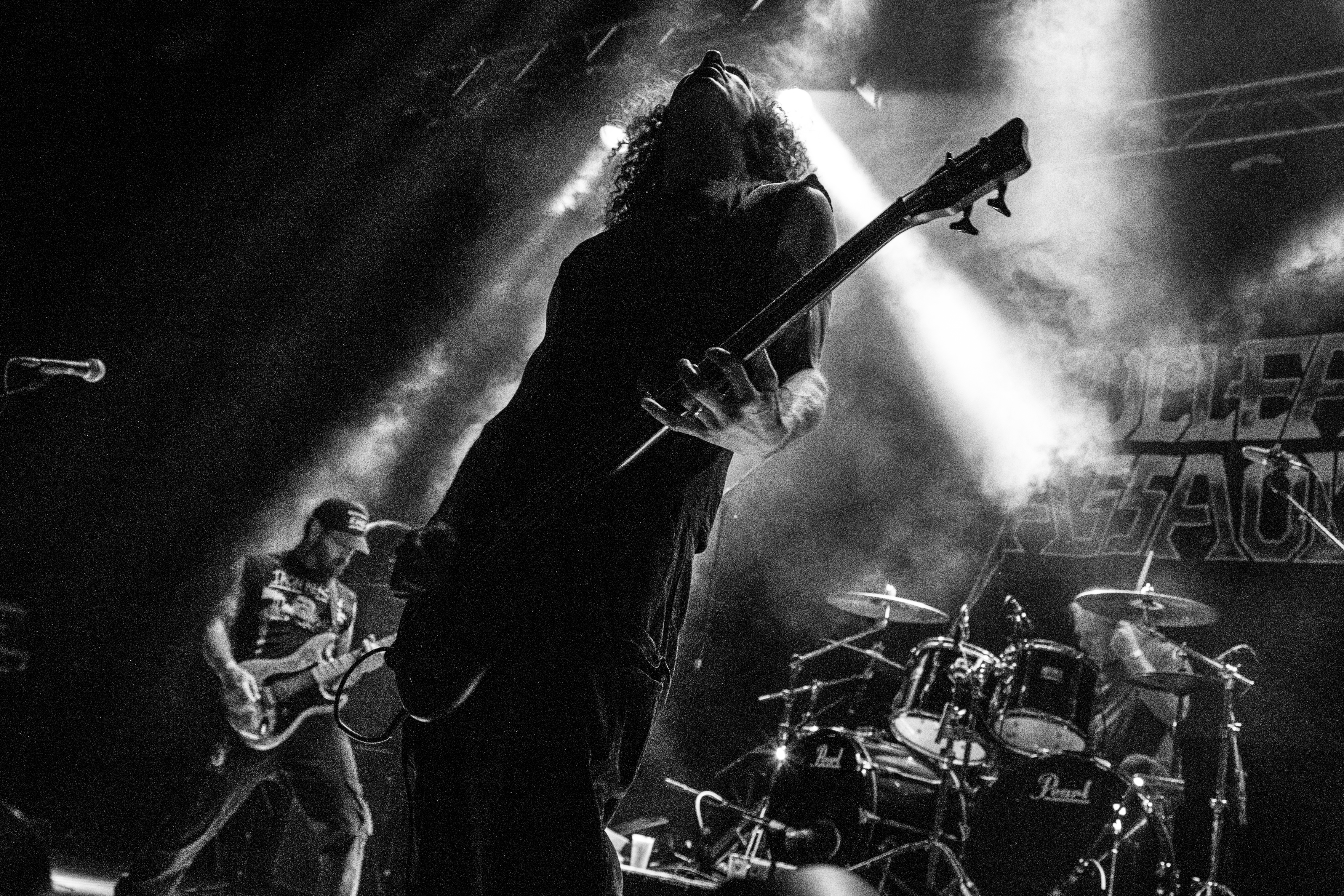 Nuclear Assault performing live at Metal Meeting 2015, Eindhoven, Netherlands